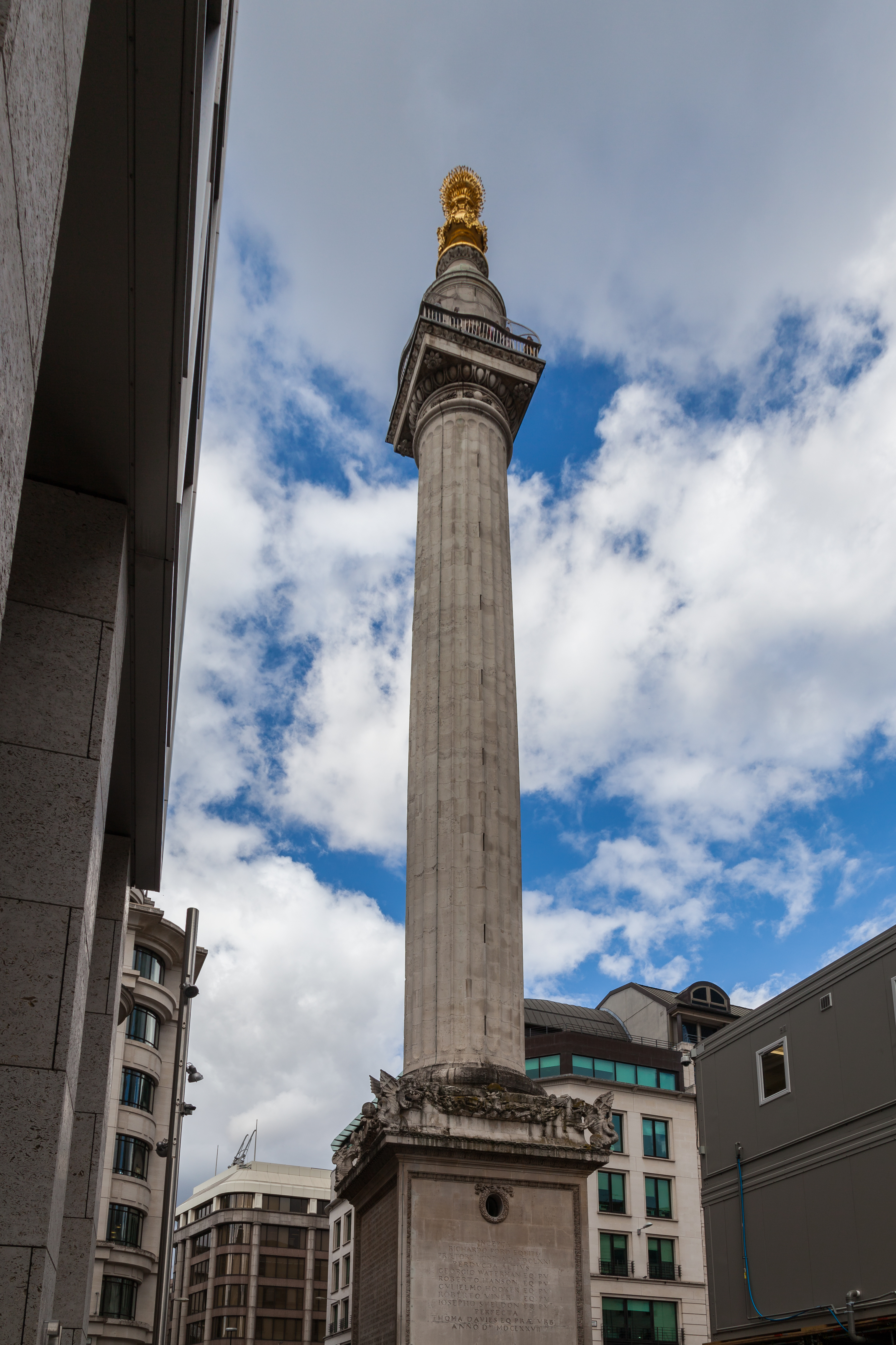 The Monument to the Great Fire of London, London, England